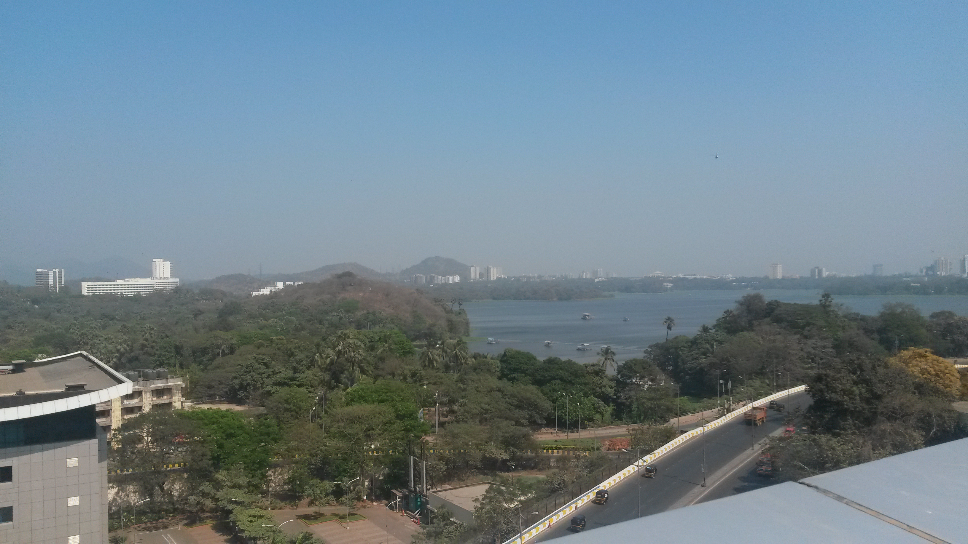 View of JVLR from EI